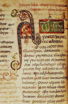 Image from Folio 60v of the Tiberius Bede.